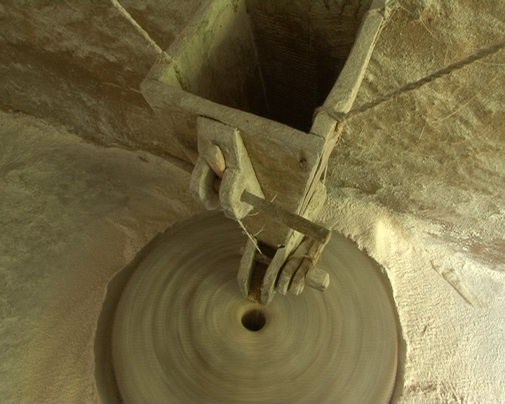 नेपाली: Water mill in Nepal